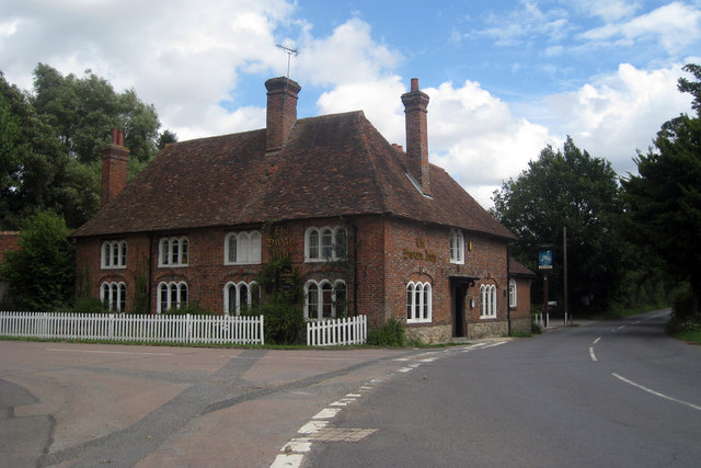 The Swan Inn, Hothfield Road, Little Chart, Kent Grade II listed